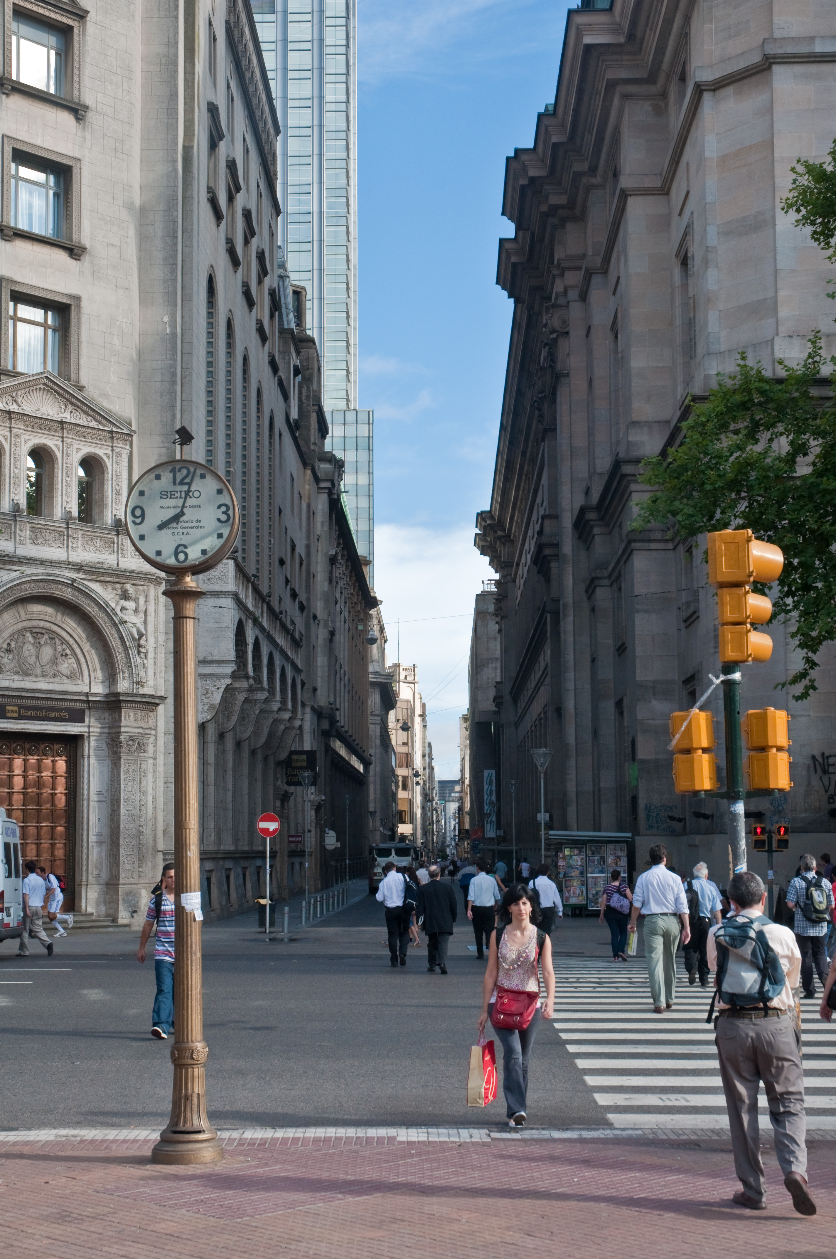 C. Reconquista, Buenos Aires, Argentina, 29th. Dec. 2010